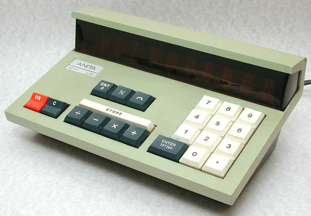 Anita 1011 LSI calculator. Photograph taken by myself of a machine in my collection.